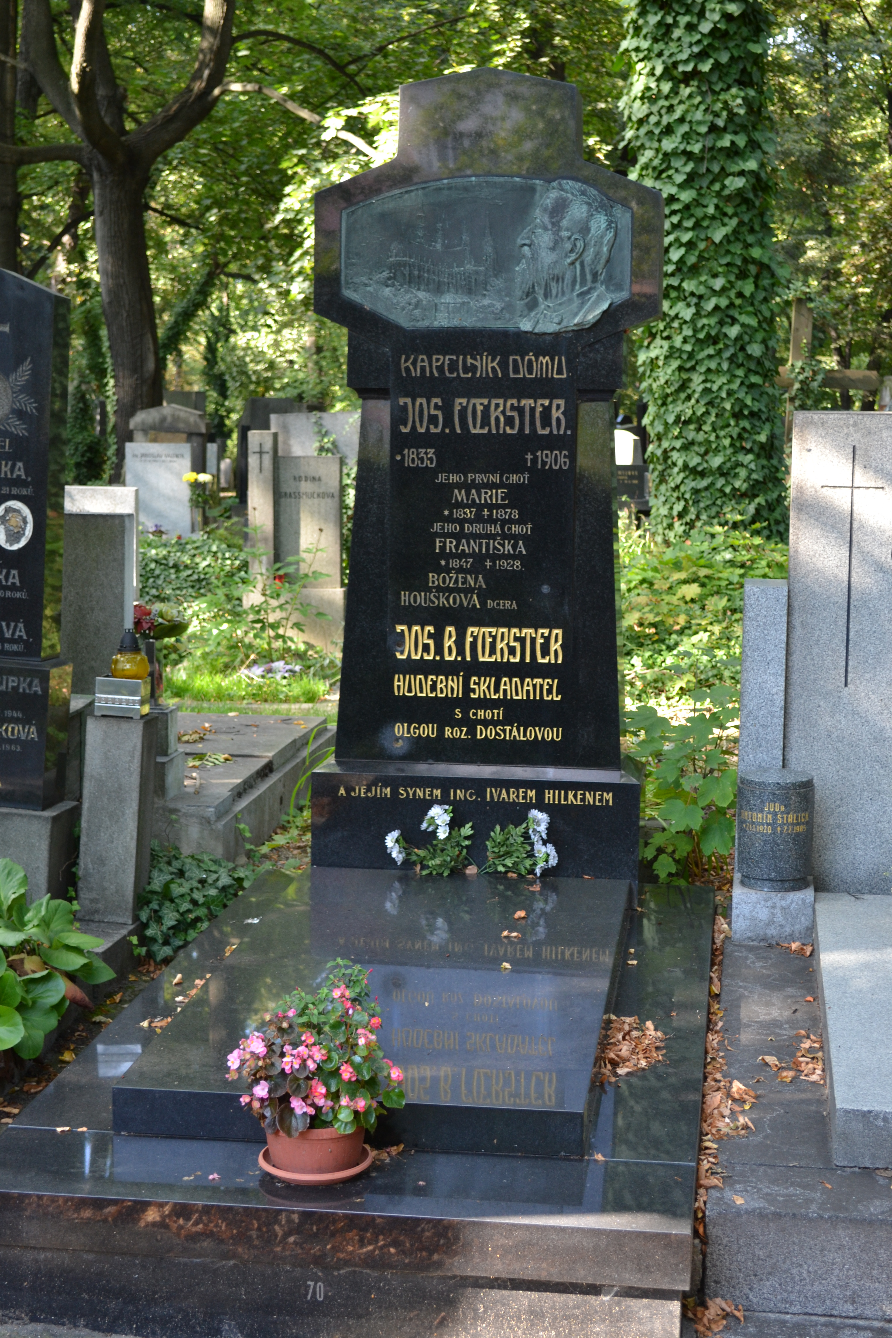 Tomb at Olšany Cemetery in Prague